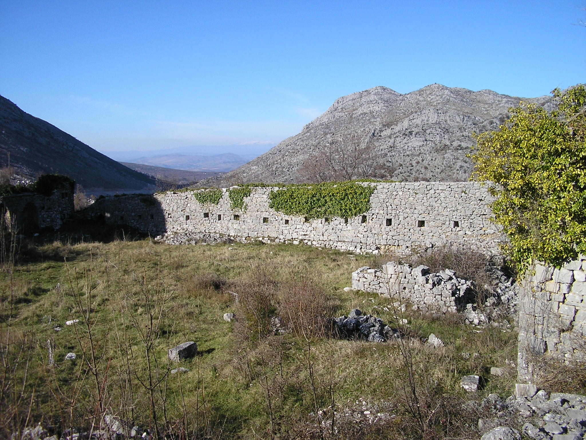 Hutovo fortress